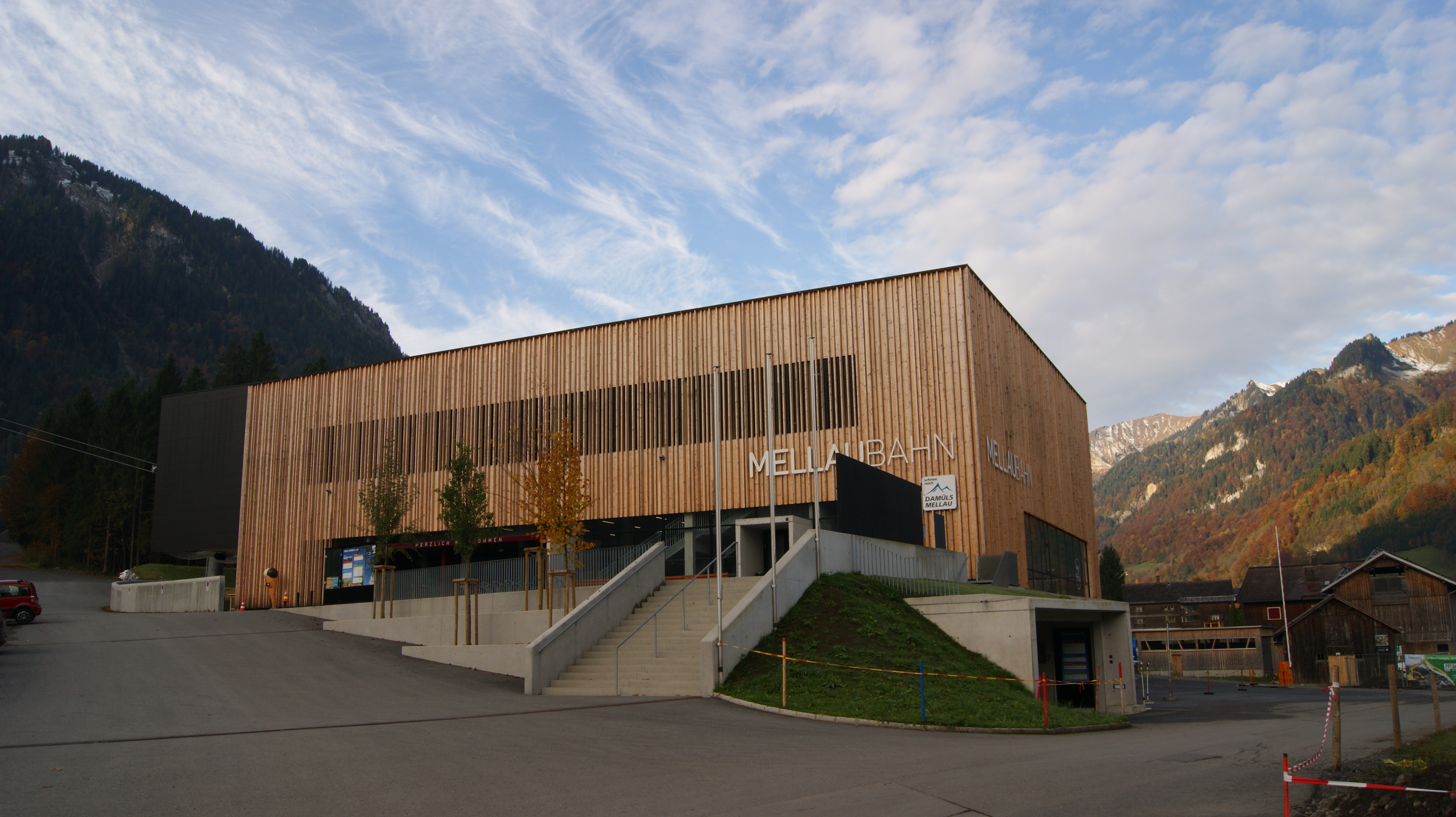 Lower station of the "Mellaubahn" in Mellau, Vorarlberg, Austria.